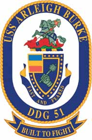 Ship's crest of USS Arleigh Burke (DDG-51).